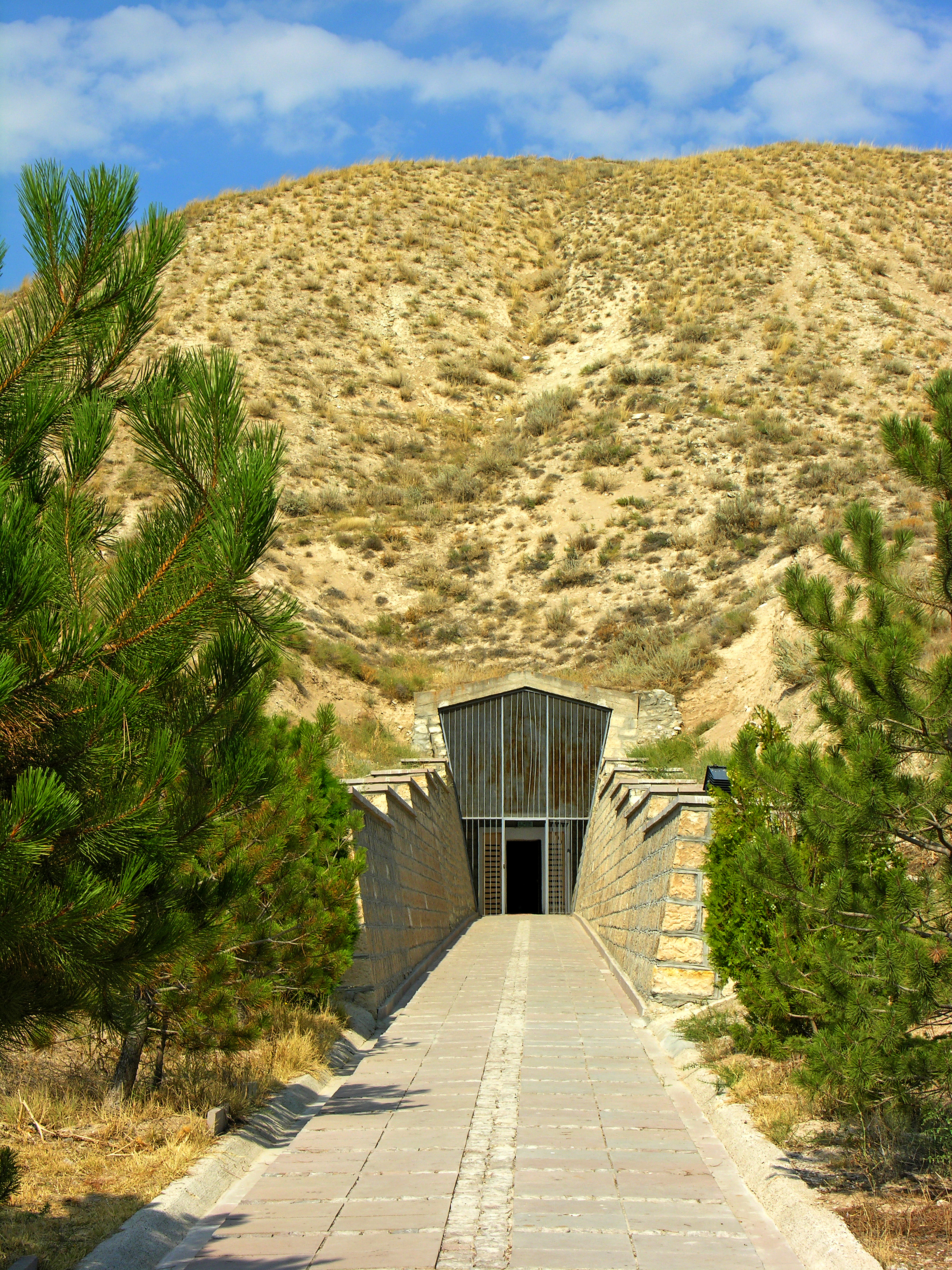 Tomb of King Midas Monumental tombs are the tombs of the nobles and leading people of Phyrigia. The monumental tomb known as the Midas Monumental Tomb, 300 m. in diameter and of 55 m. height, has a magnificent appearance. The excavation of the Midas Monumental Tomb was carried out in 1957 and the findings were presented to the public in 1960